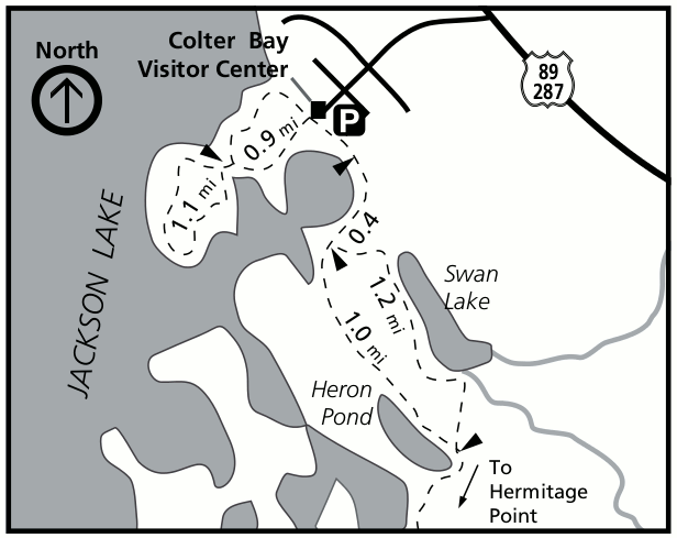 The Colter Bay winter map shows the various winter trails toward Heron Pond and Swan Lake, along the shores of Jackson Lake in the northern part of Grand Teton National Park.